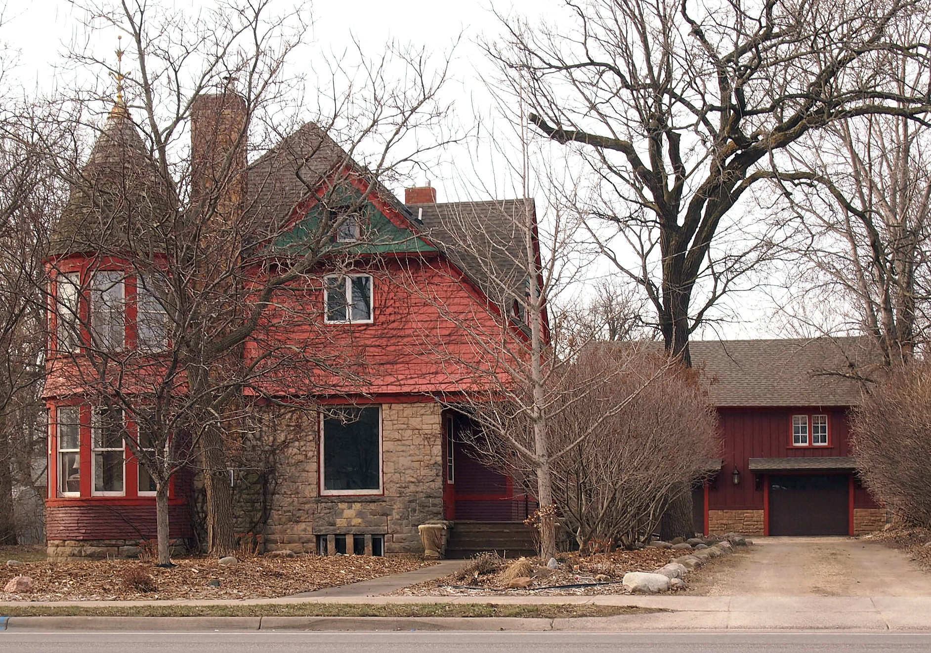 Nicherson-Tarbox House & Barn, 514 Broadway St E, Monticello, Minnesota, USA. Viewed from the north-northeast.